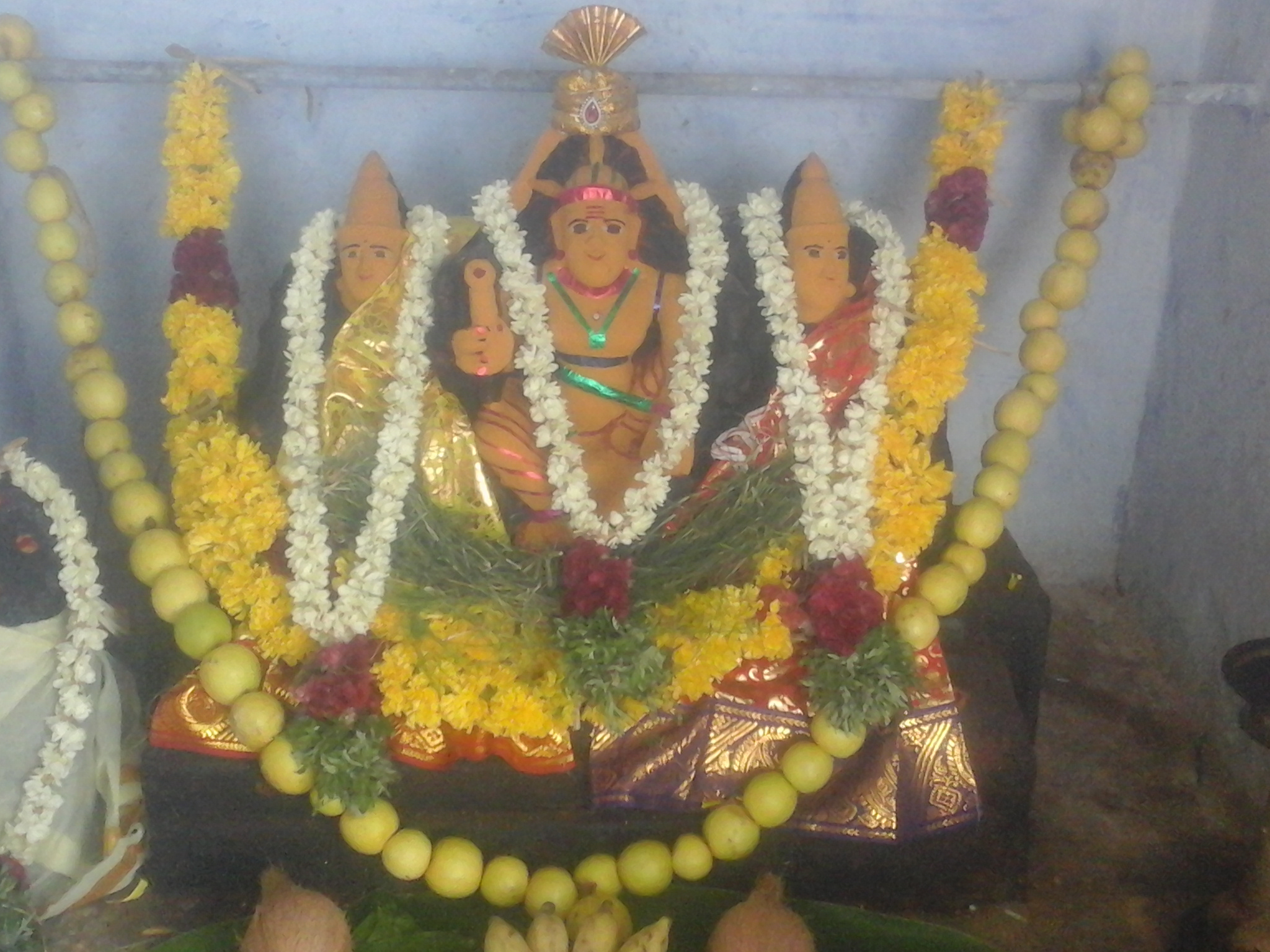 Kathukonda Ayyanar